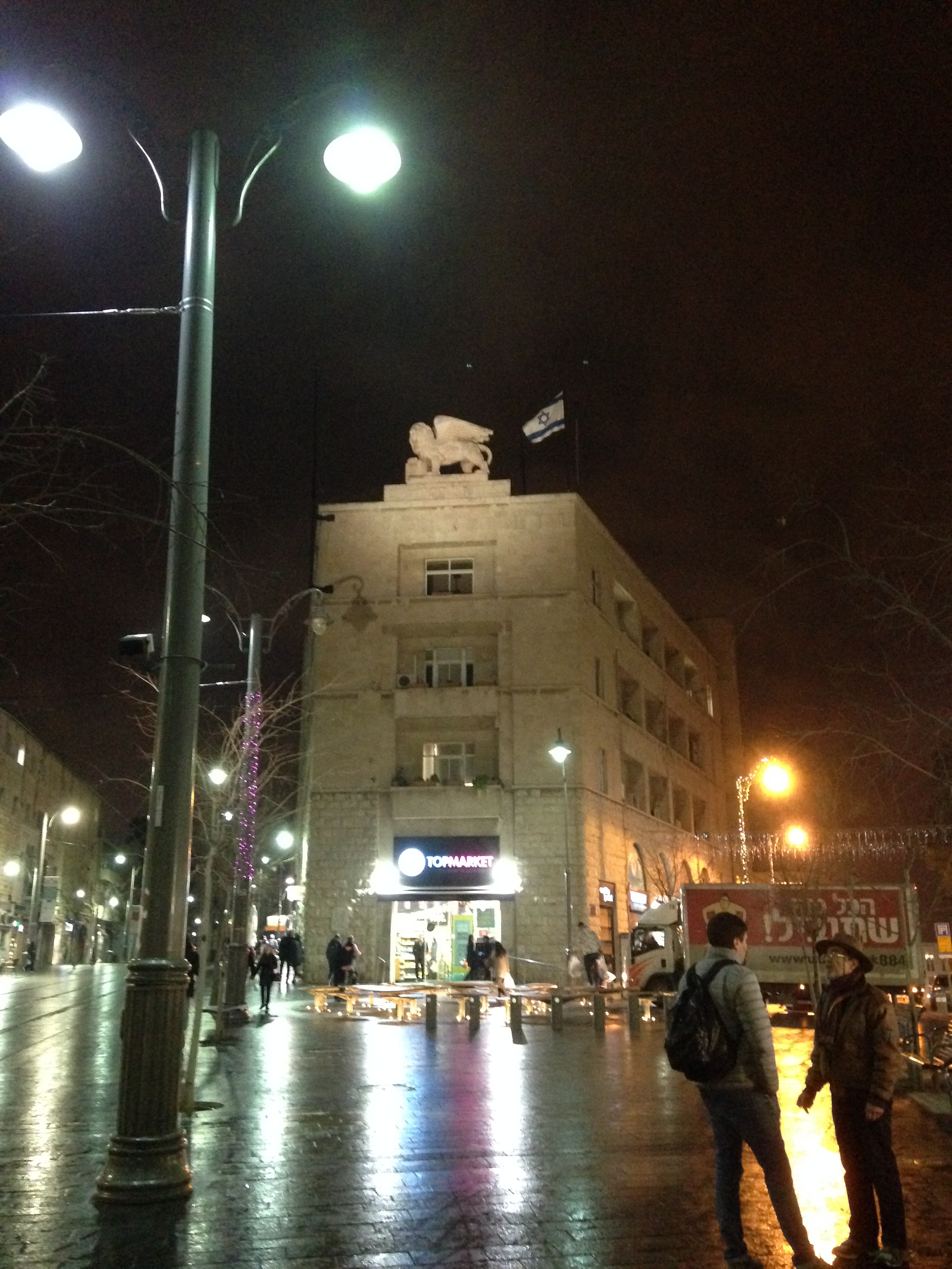 Generali building in Jerusalem